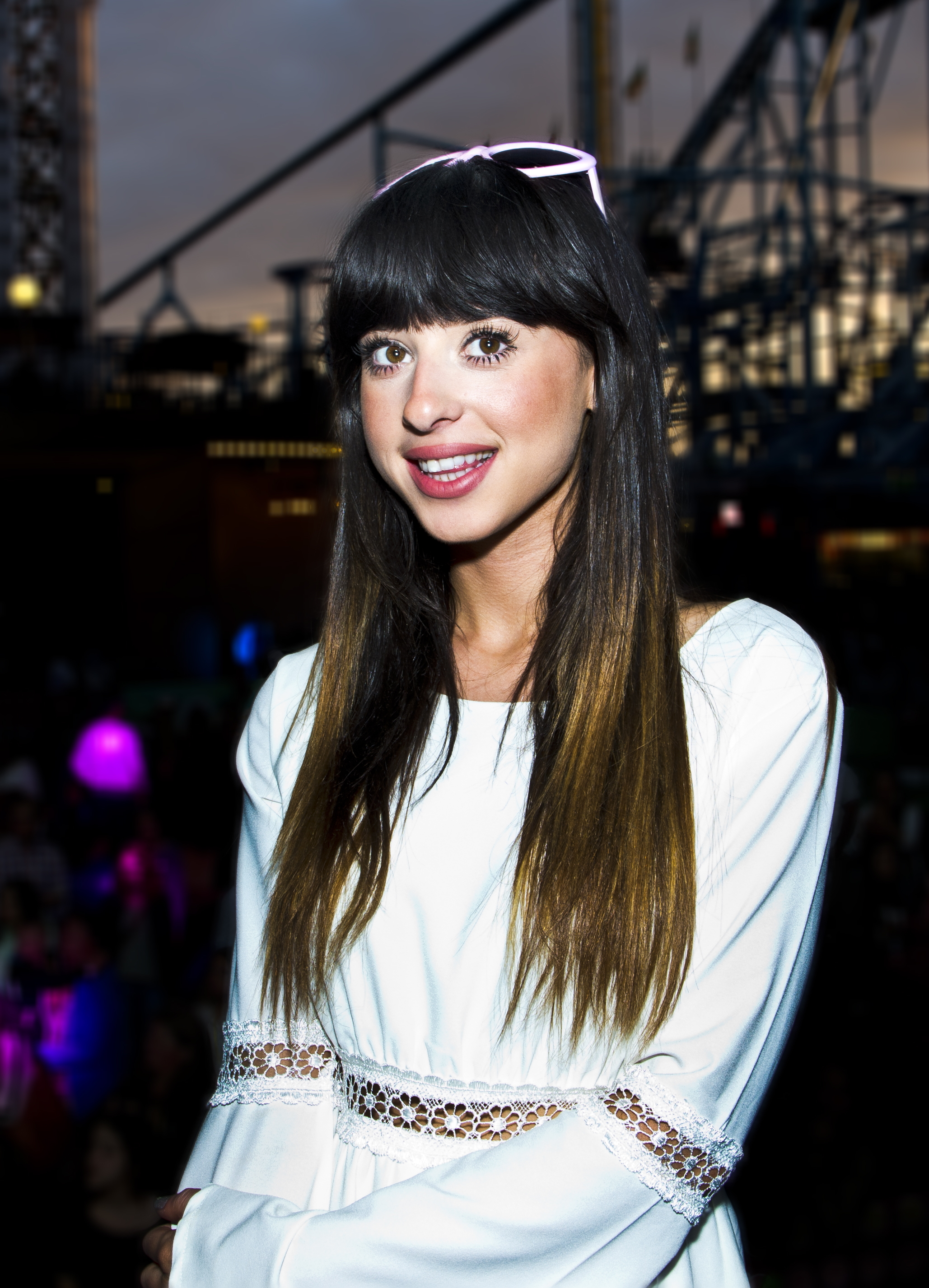 Foxes visit Sommarkrysset in Sweden, Stockholm, Gröna Lund.